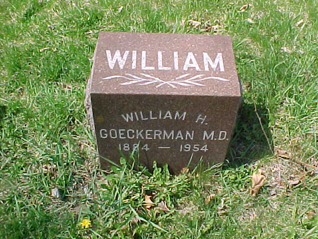 Tombstone of William H. Goeckerman MD, an American physician who developed a treatment for psoriasis